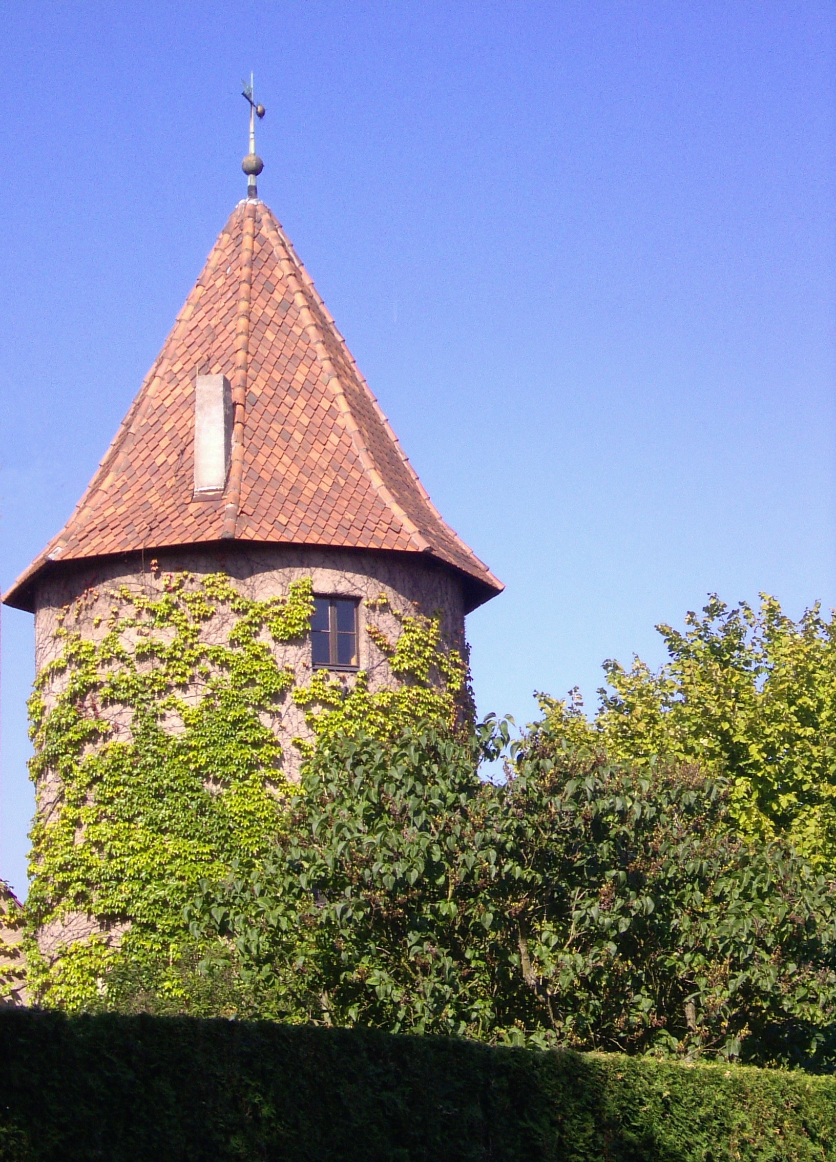 Langenzenn Lindenturm former guardtower